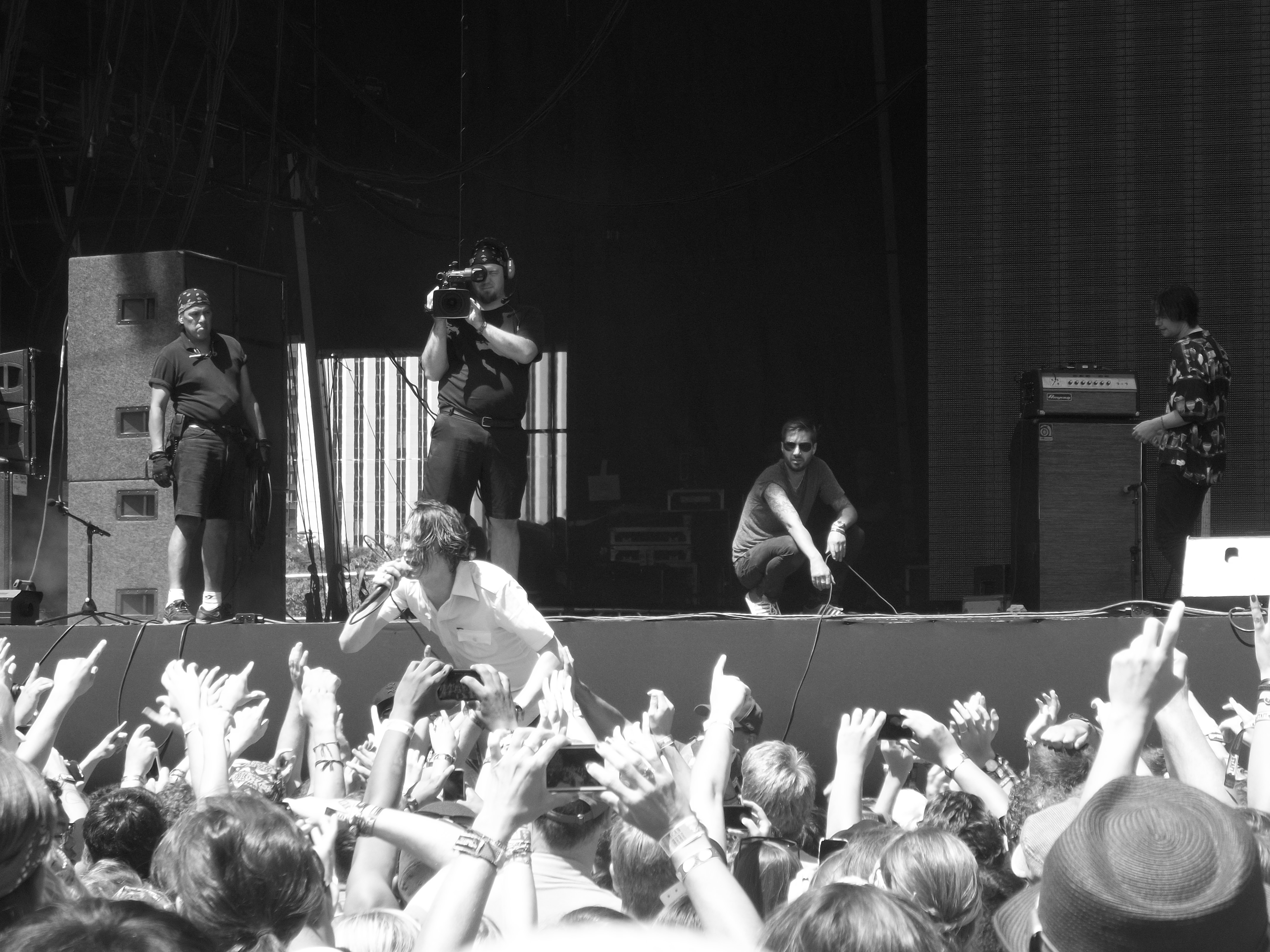 Palma Violets at Lollapalooza 2013 in Chicago, Illinois